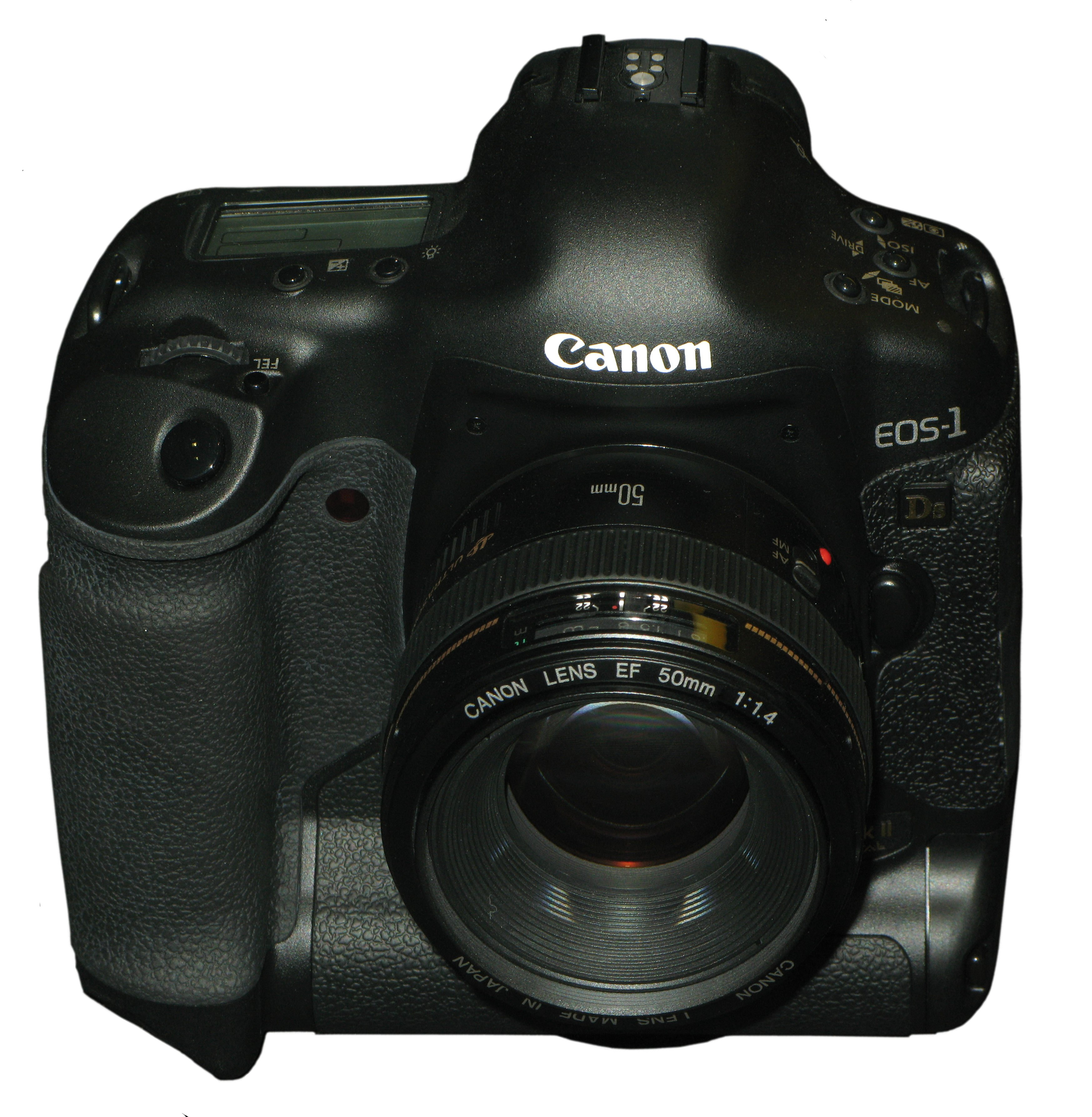 Canon EOS-1Ds Mark II